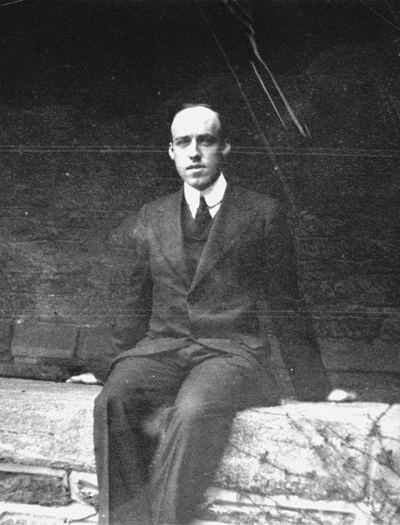 Rhys Carpenter